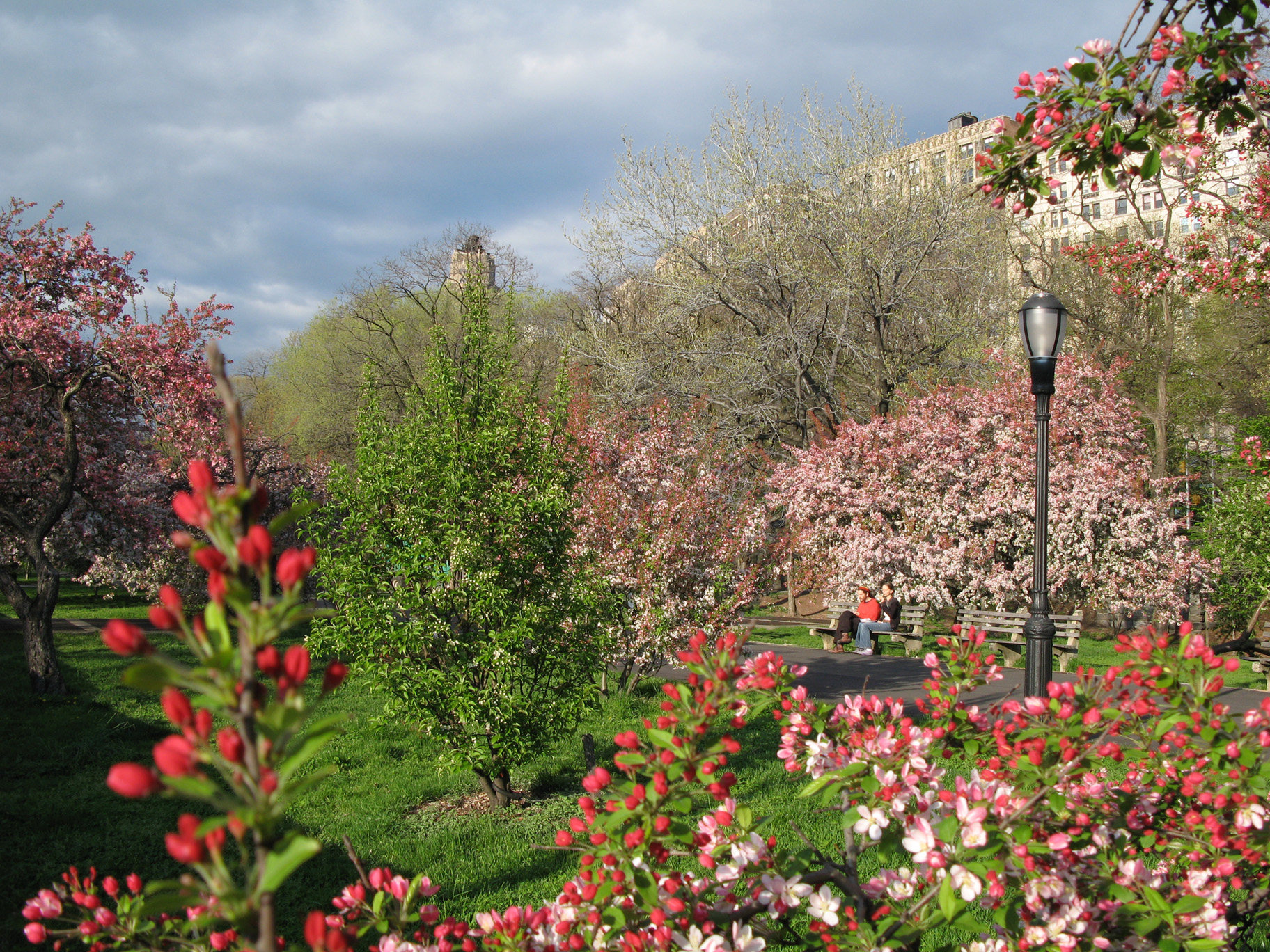 Riverside Park, New York City